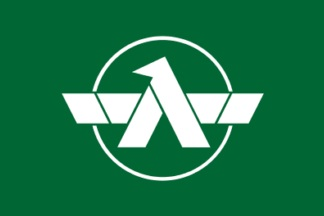 Flag of Tsubata Ishikawa